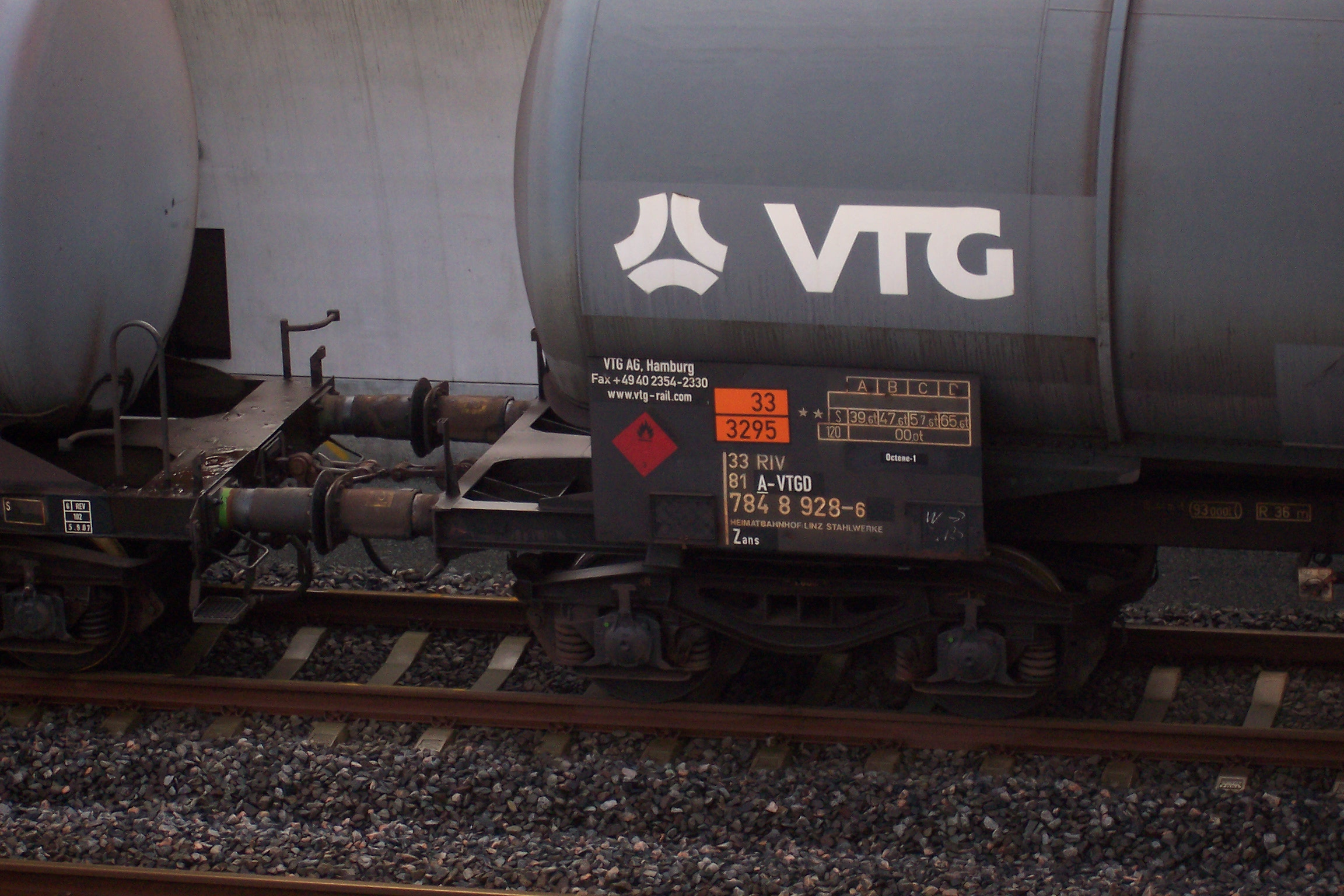 Mixed freight train Betuweroute